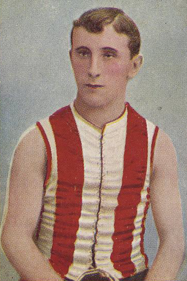 Cigarette card of Dick Casey from the 1905 Wills Past and Present Champions series.